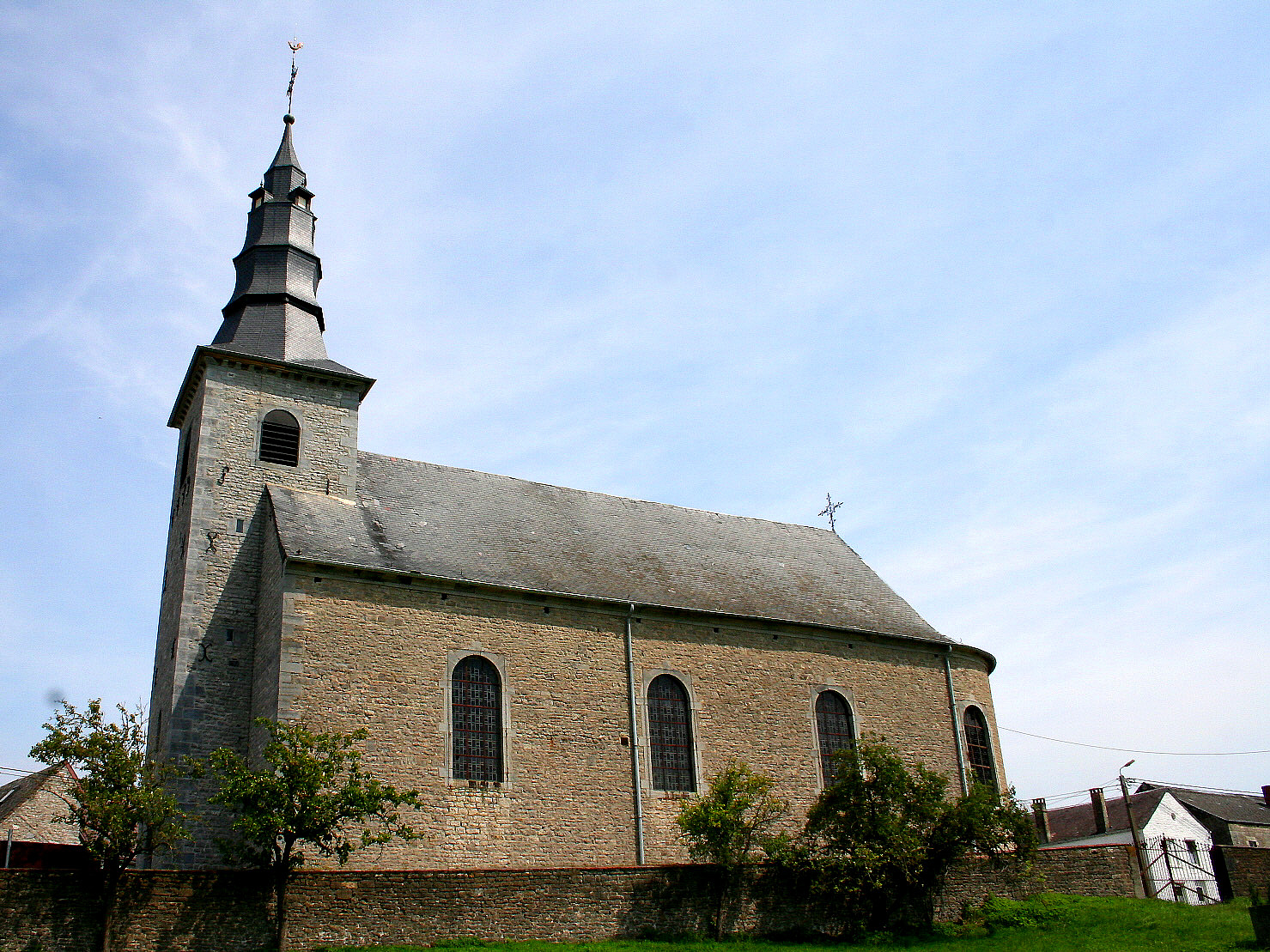 Romerée (Belgium), the St. Remy’s church (XVIIIth century).